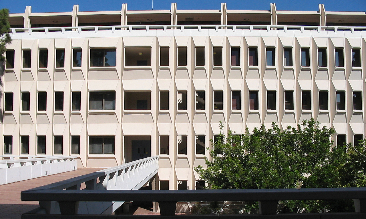 Murray Krieger Hall (originally Humanities/Social Sciences Building) at UC Irvine, an example of the architecture on the campus, is one of the eight original buildings on the campus designed by the architectural firm William Pereira & Associates in 1965.